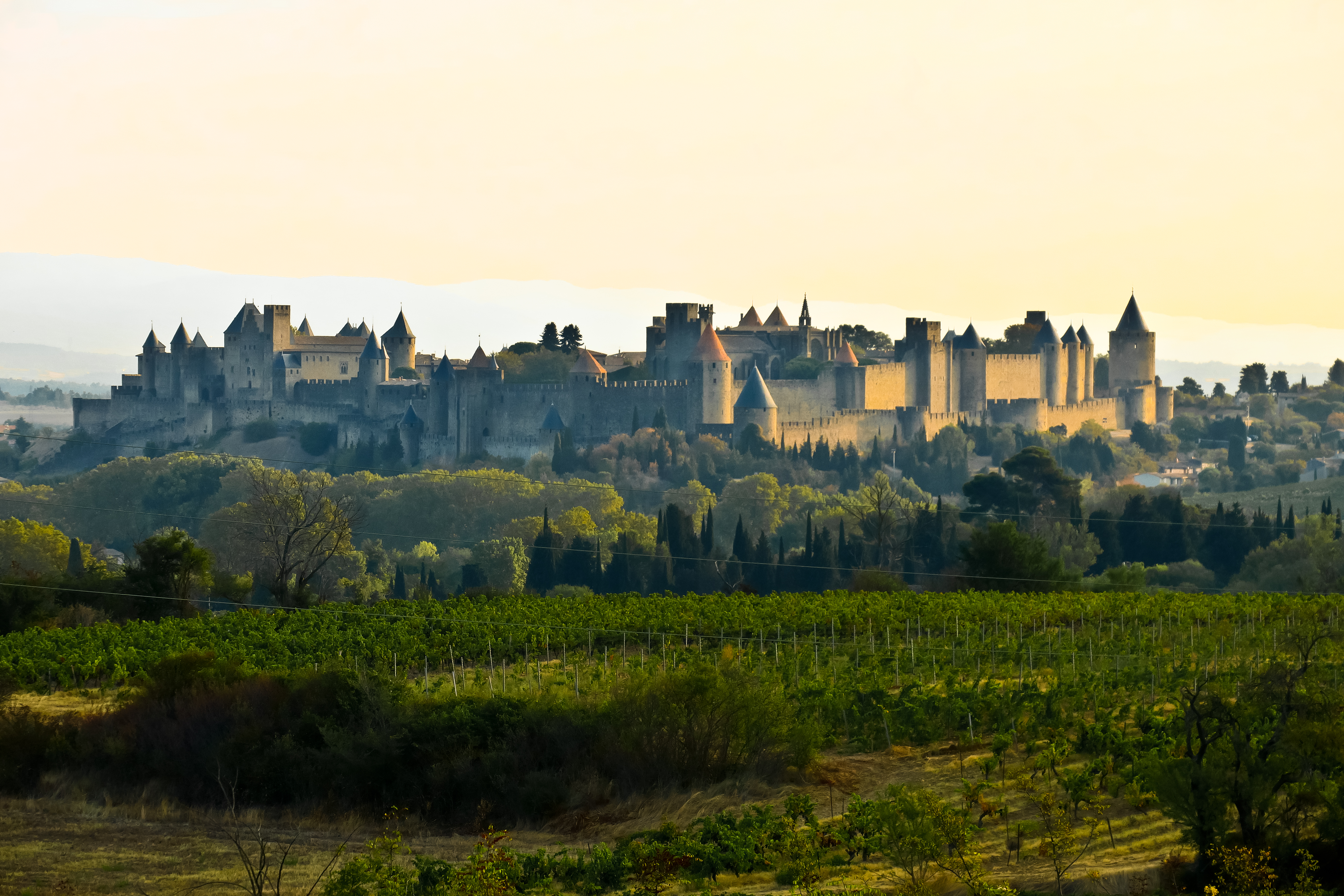 Sunrise on the city of Carcassonne, SSW .